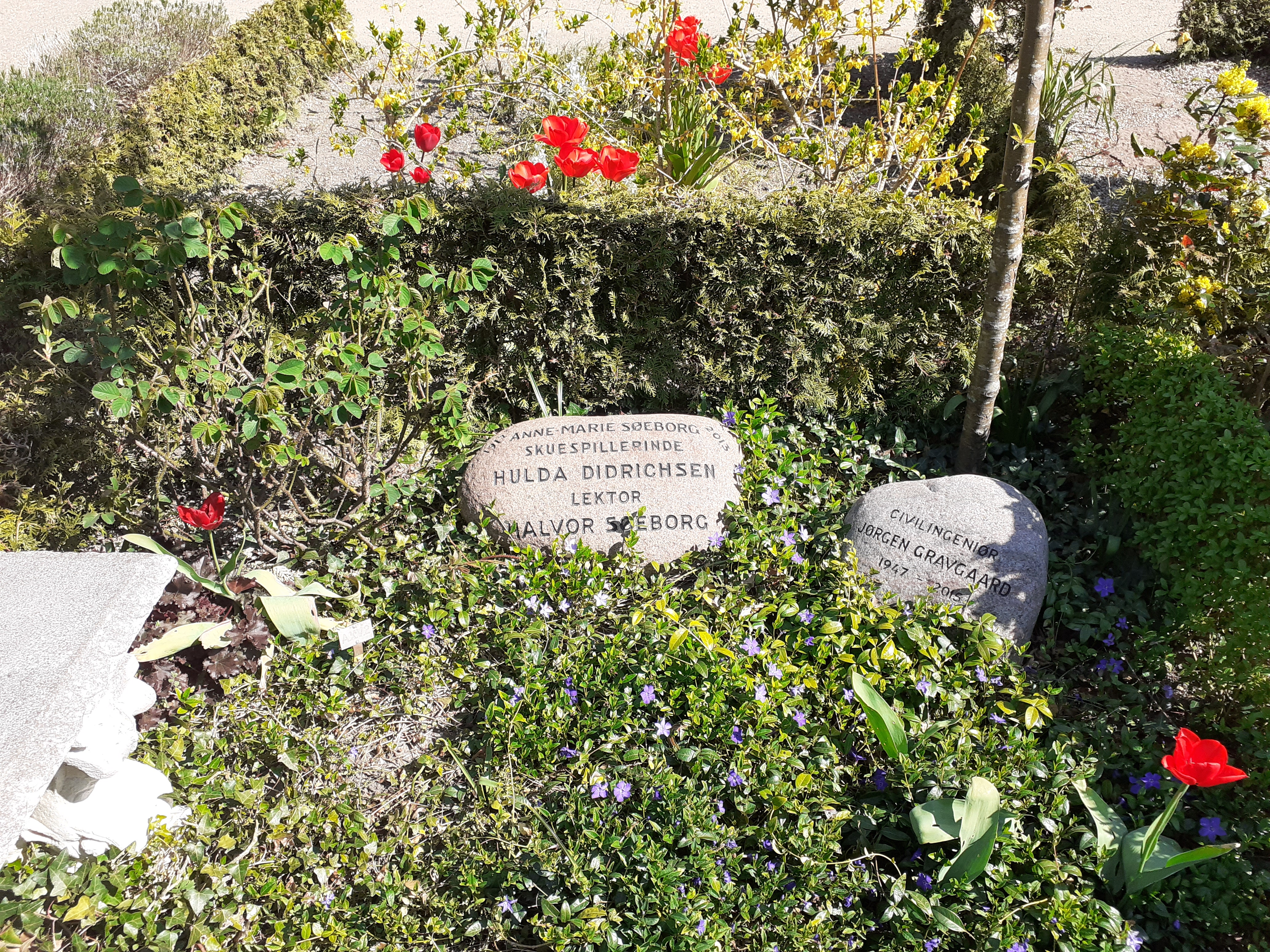 The grave of the actress Hulda Didrichsen (1878-1961) at Holmens Kirkegård in Copenhagen.